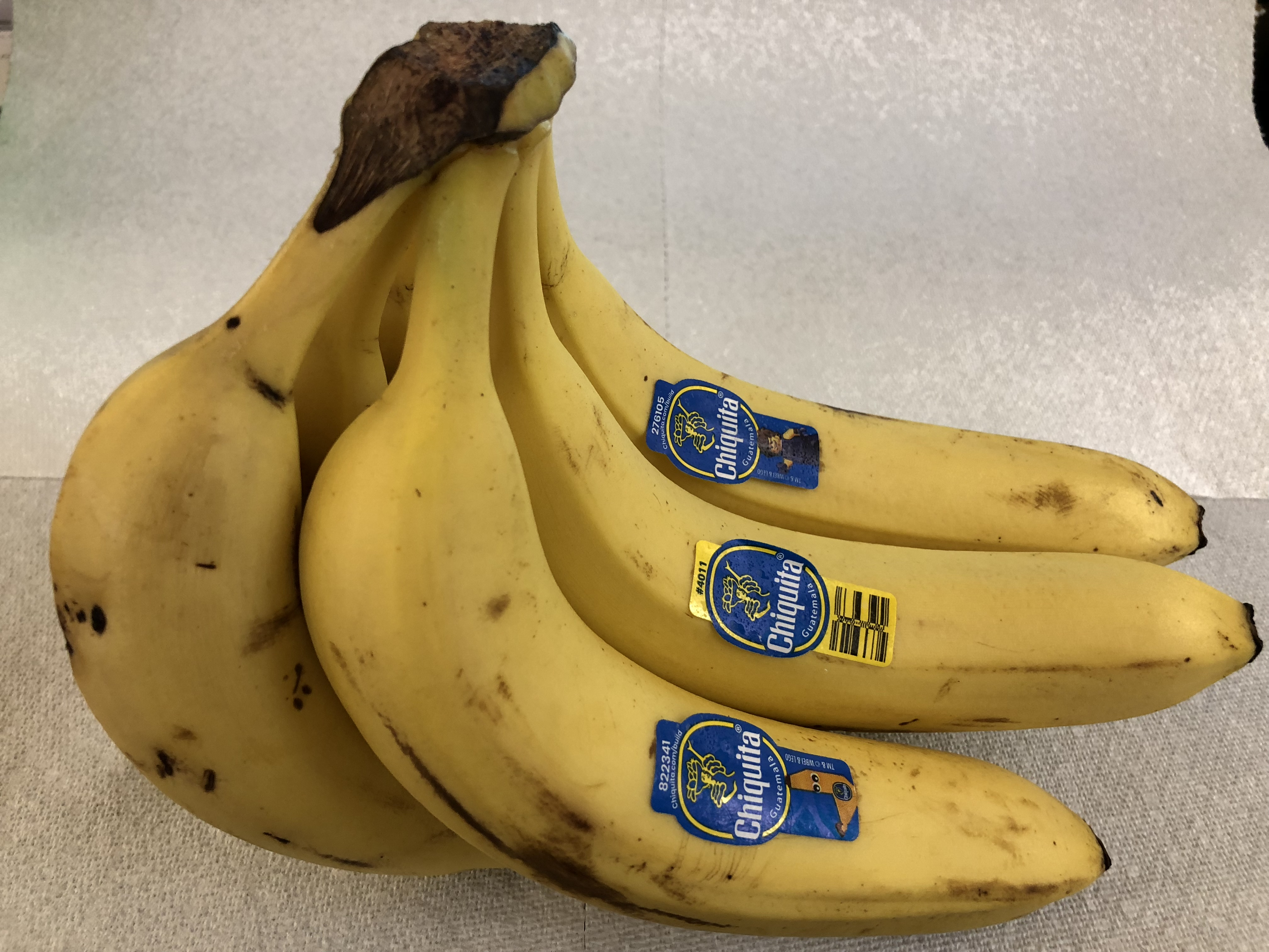 A bunch of six Chiquita bananas in the Franklin Farm section of Oak Hill, Fairfax County, Virginia